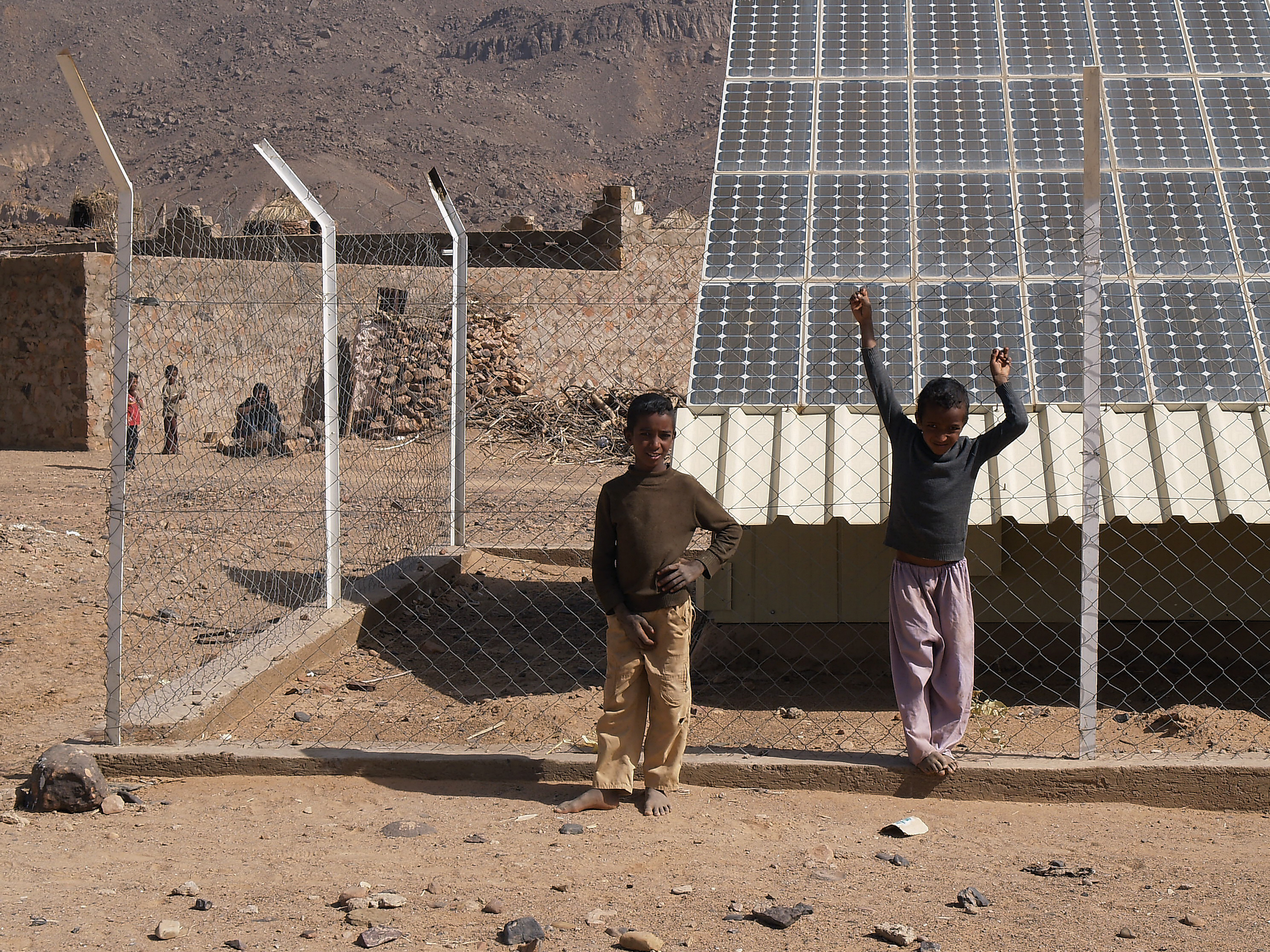 Full story: القصة l'histoire